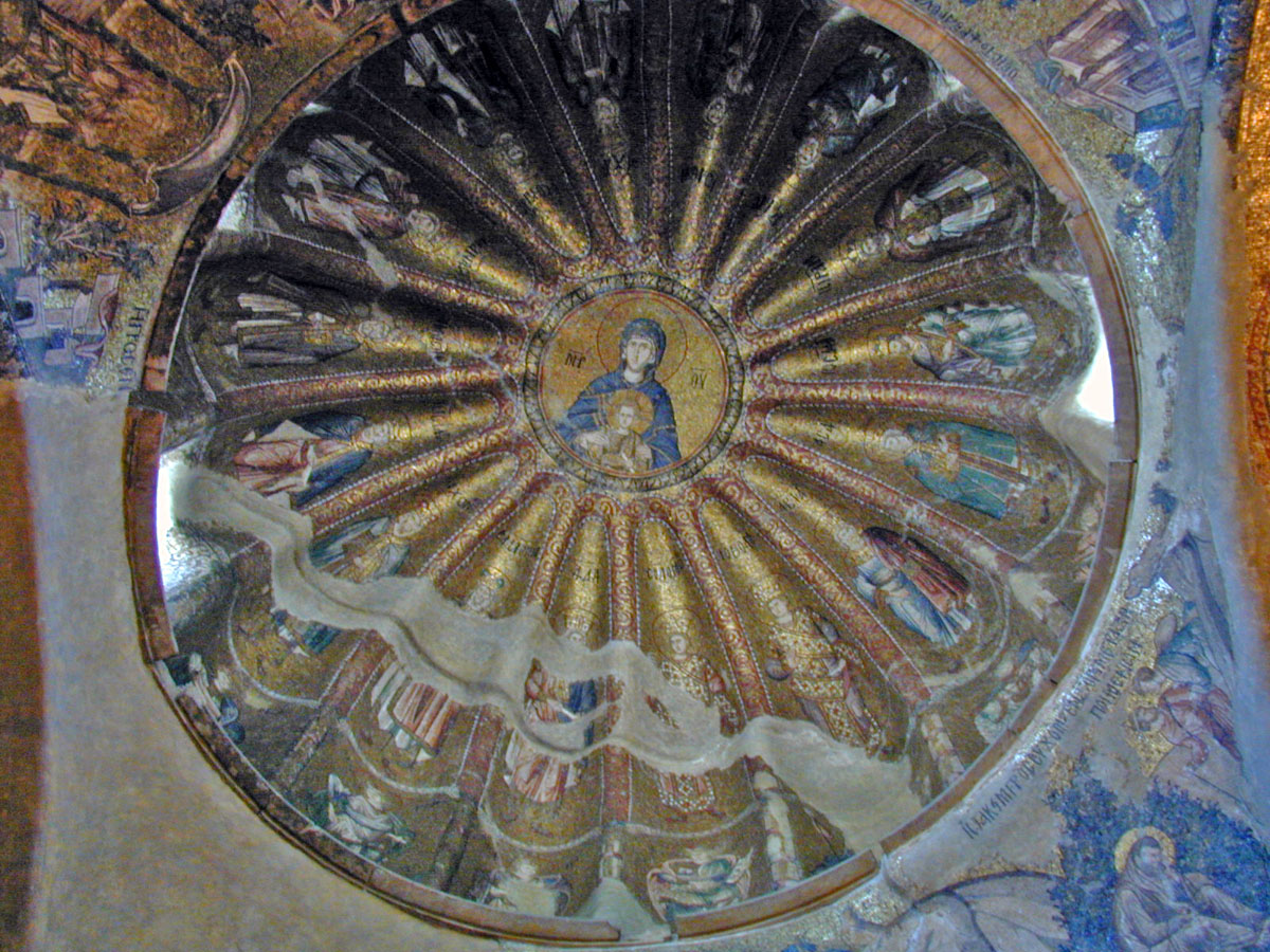 Mary and her ancestors on the lesser dome of Chora church in Constantinople/Istanbul. Photograph taken by Marsyas 13:33, 19 January 2006 (UTC)